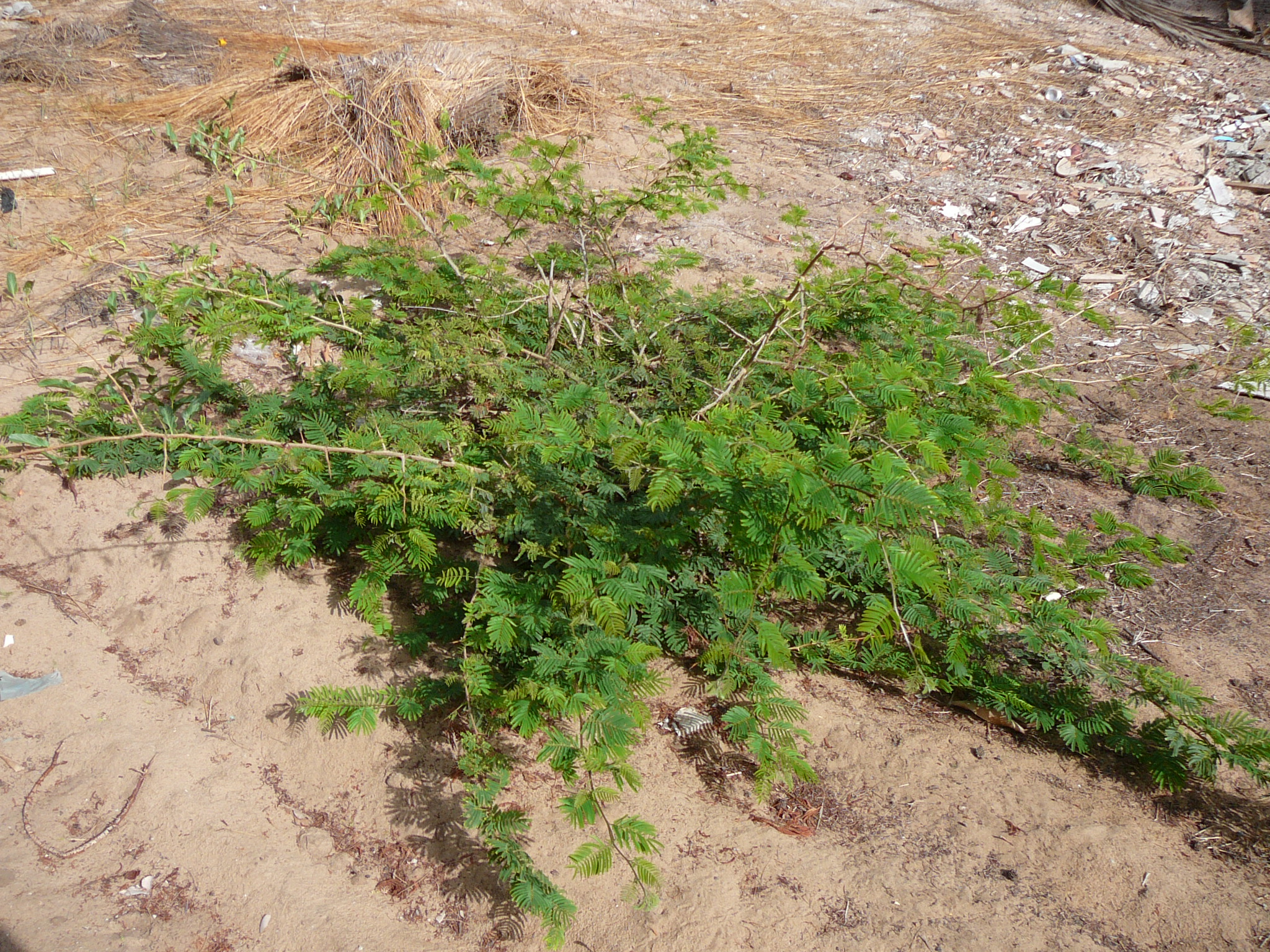 Bell-flowered Mimosa